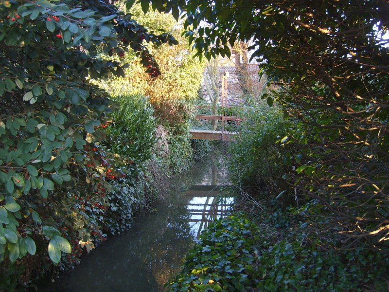 The Drochon, Houlgate, new year 2009.